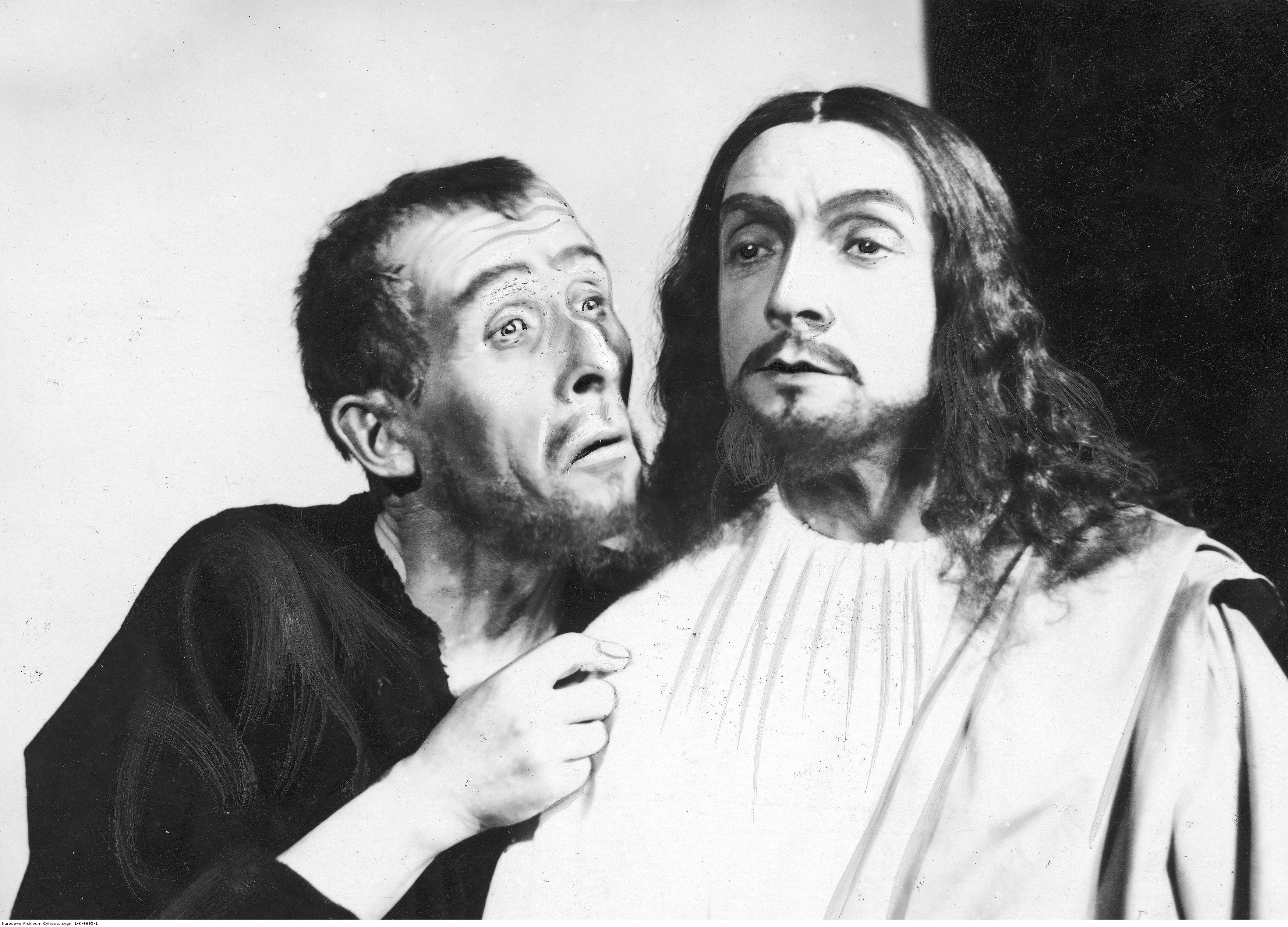 Henryk Kowalski as Judas and Jan Kochanowicz as Christ. Photograph was posted in Ilustrowany Kurier Codzienny.